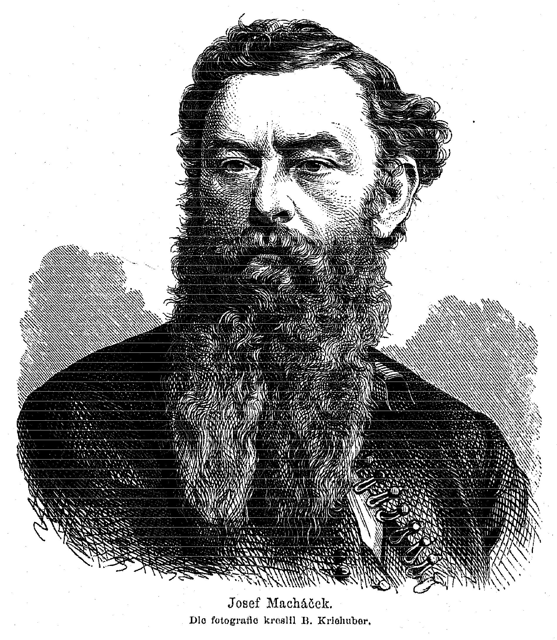 Portrait of Josef Macháček (1818–1870), Czech entrepreneur, patriot and politician